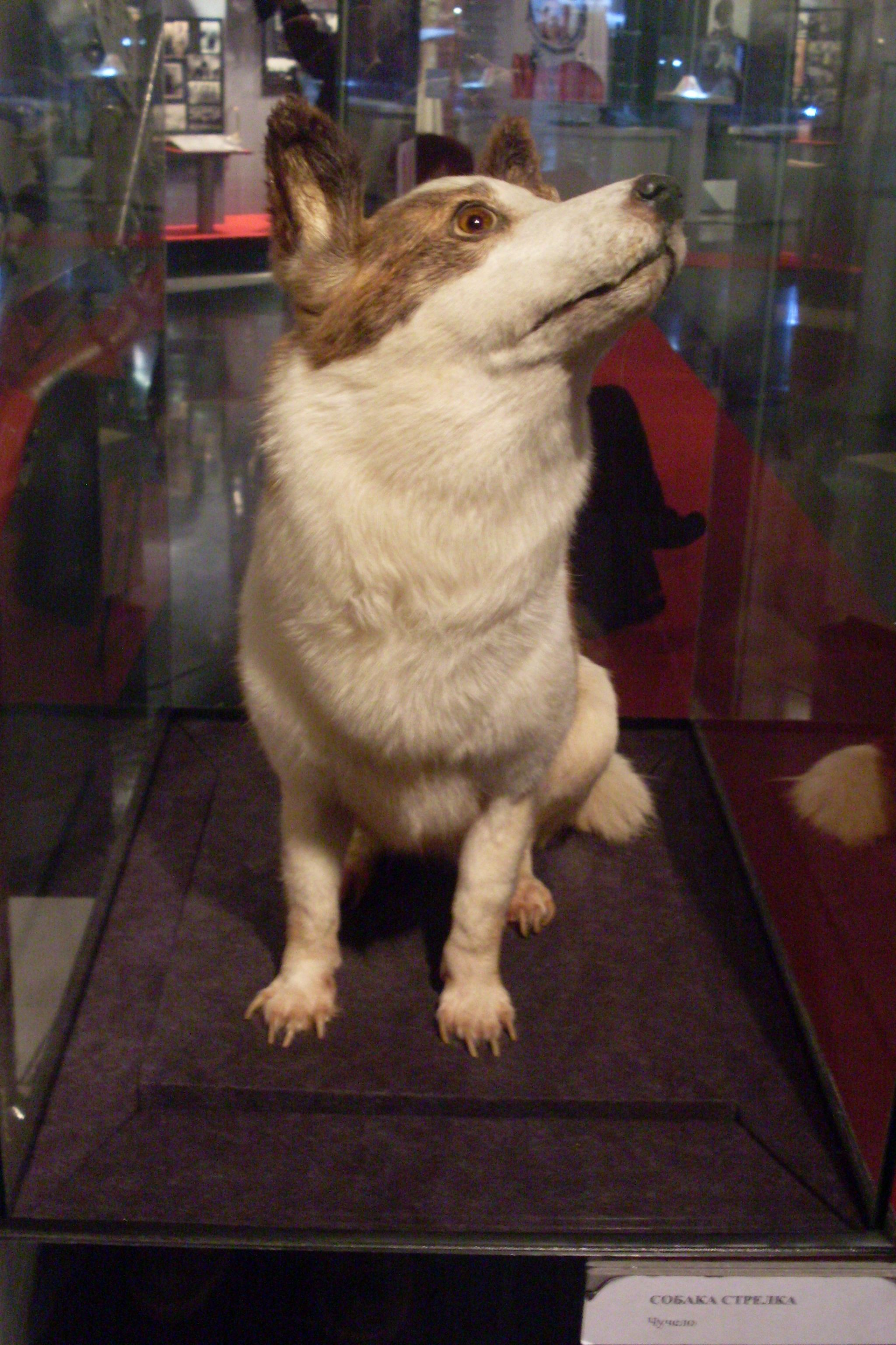 Strelka in the Memorial Museum of Cosmonautics in Moscow.